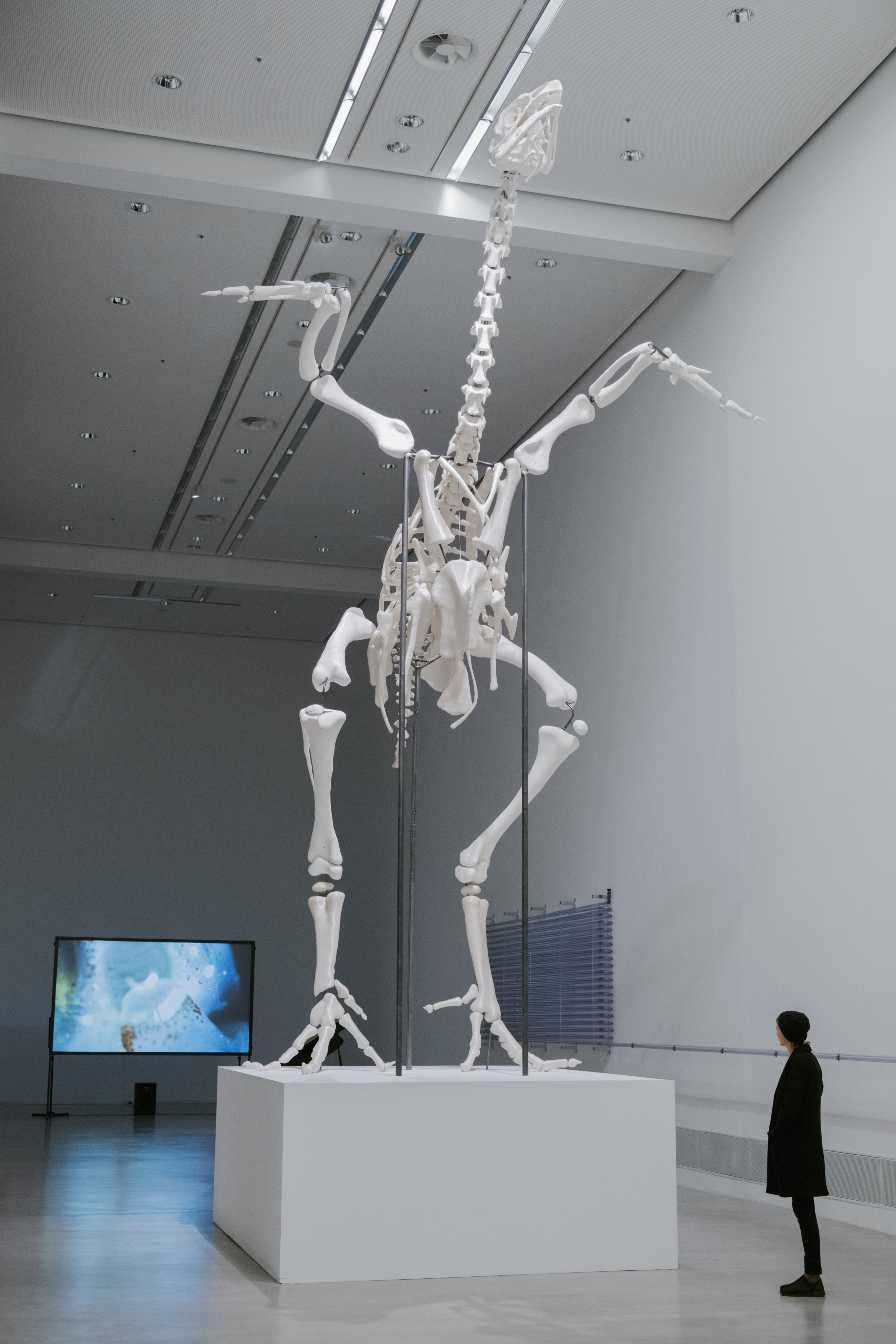 Monument For The 308 Installation View at Berlinische Galerie, Photo by Andreas Greiner & Theo Bitzer, 2016